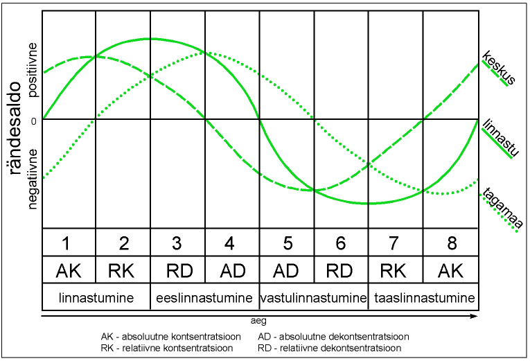 Rahvastiku arvu muutus linnaregioonis lineaarse linnastumise mudeli järgi (van den Berg, 1982)